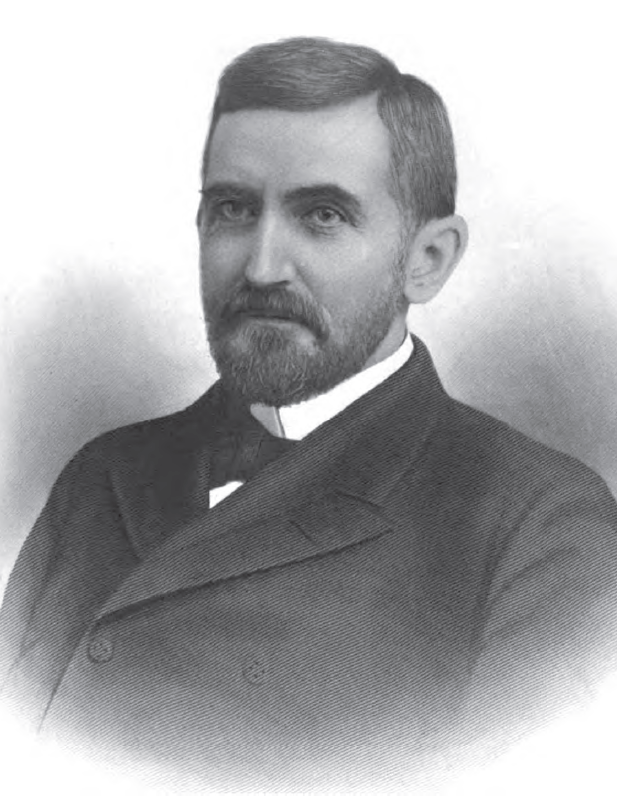 an Ohio politician named John M. Pattison